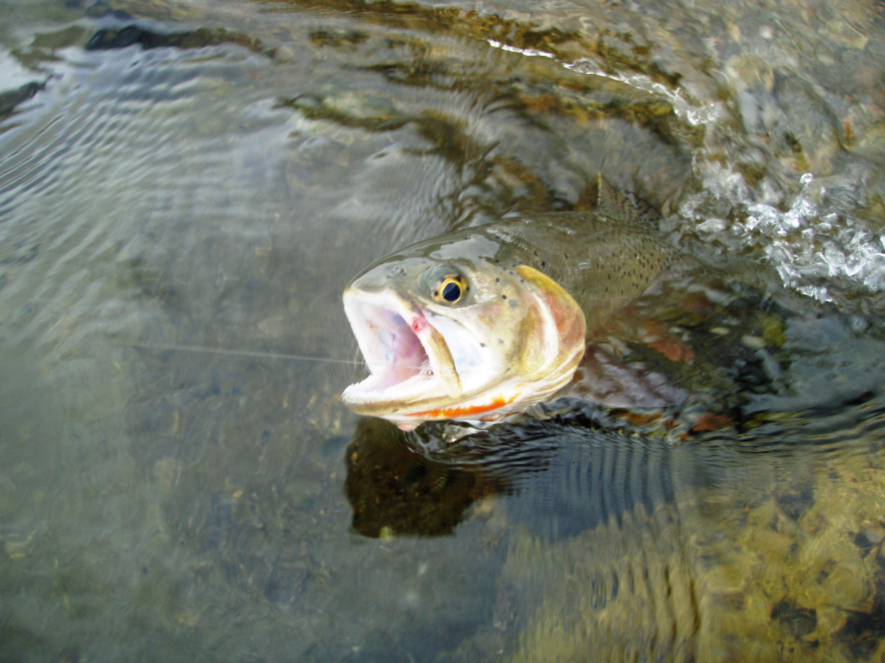 Cutthroat-Rainbow Hybrid trout, Gardner River, Yellowstone National Park